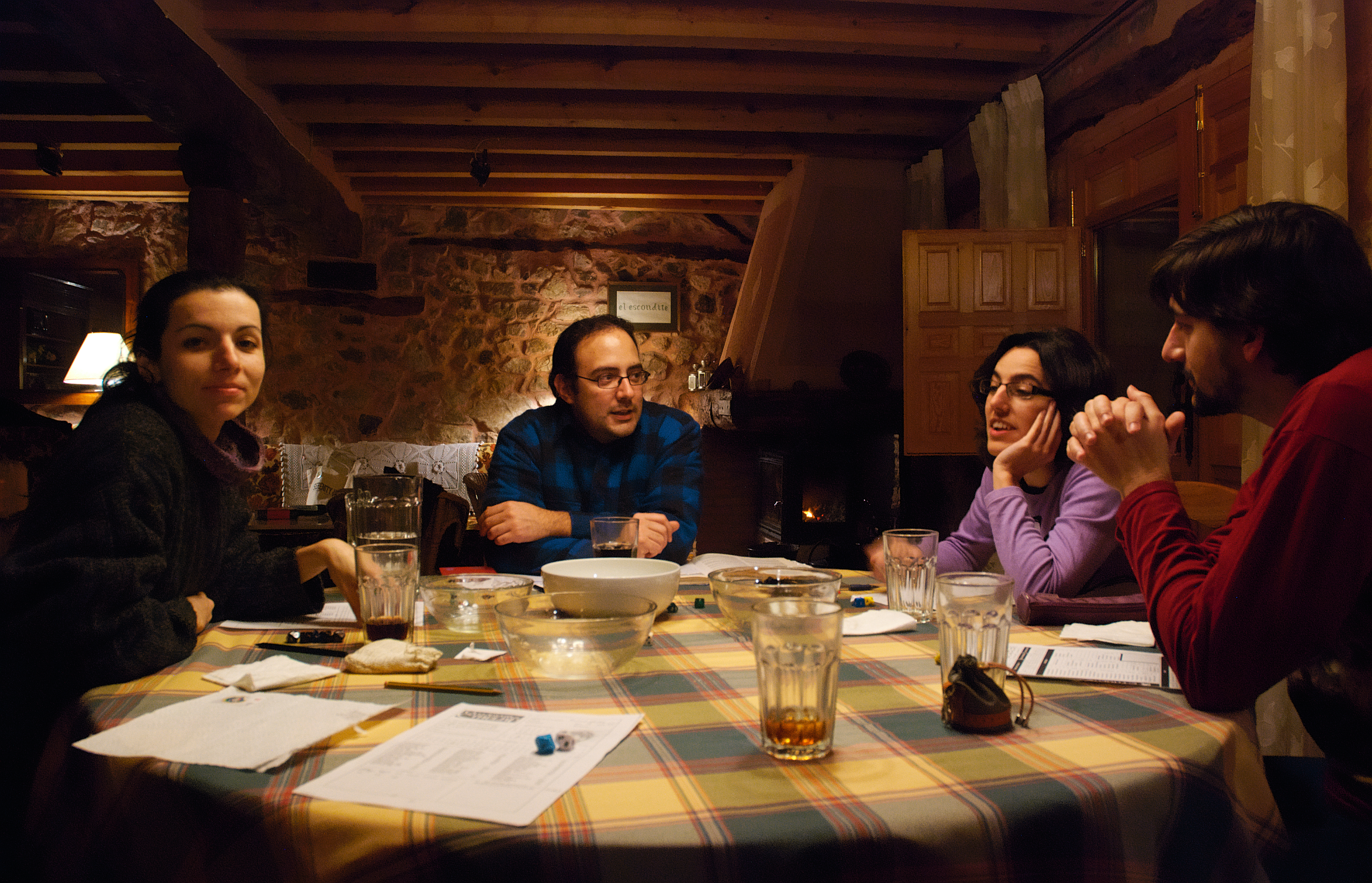 A group of role playing gamers, enjoying a night session. Dice, snacks, beverages, character sheets and a comfortable countryside house combined to offer a traditional pen & paper RPG experience. [This photo was taken and published with the consent of all four identifiable subjects]